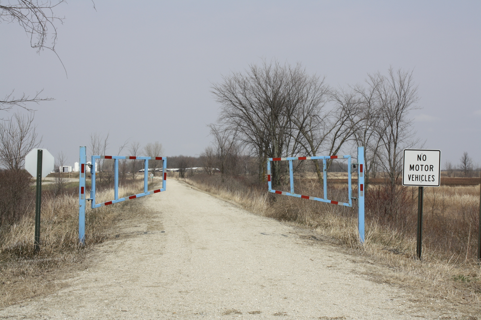 The Fox River State Recreational Trail in rural Calumet County, Wisconsin on County K.